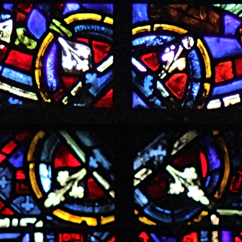 Stained window in Chartres cathedral - fragment.